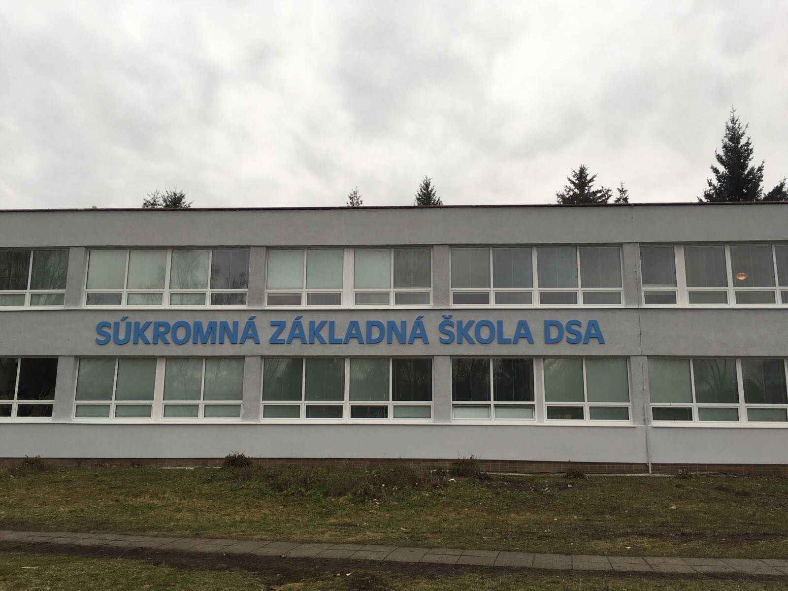 szs dsa presov